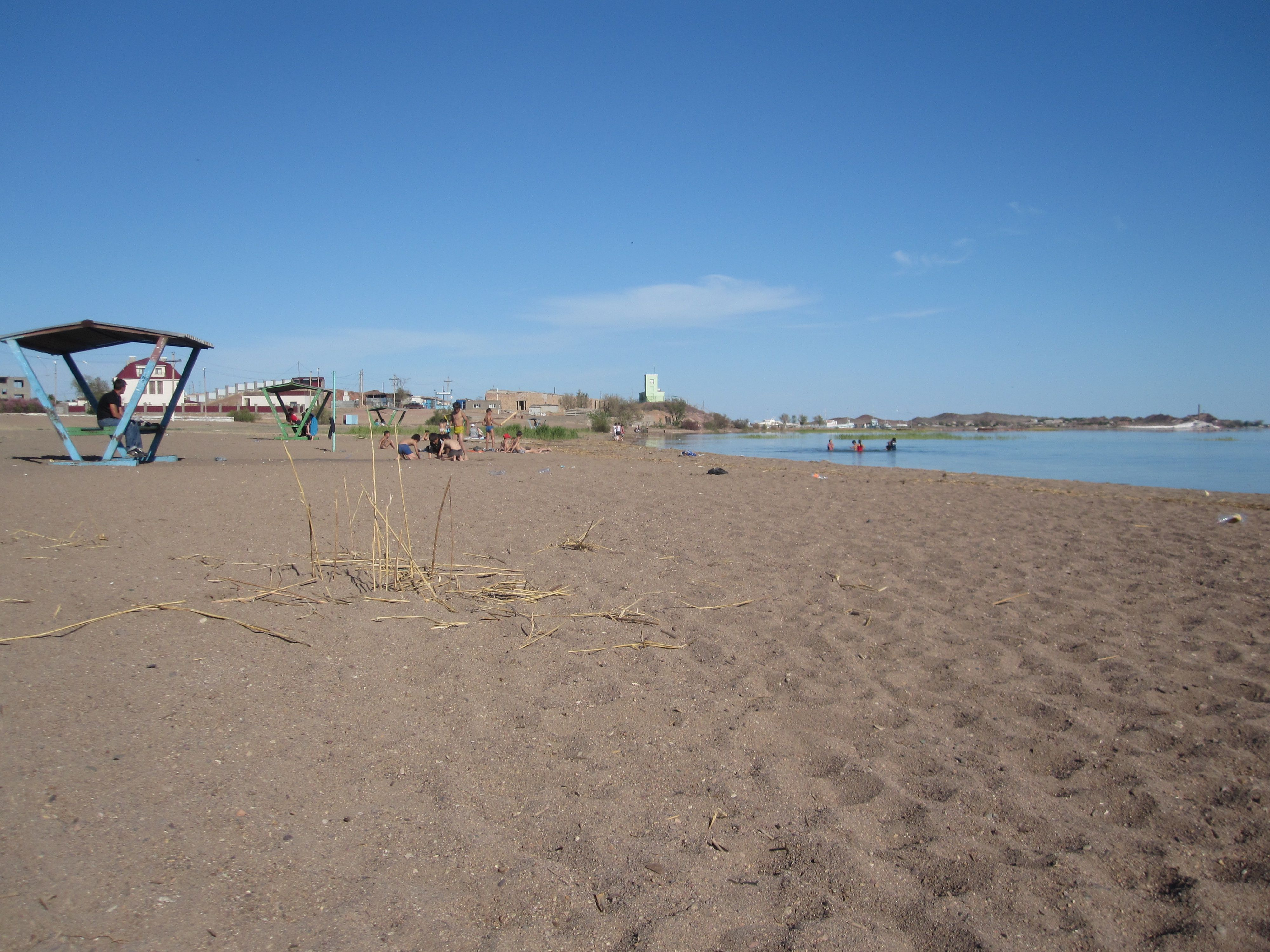 Picture of the Balkhash town beach, Balkhash Kazakhstan.